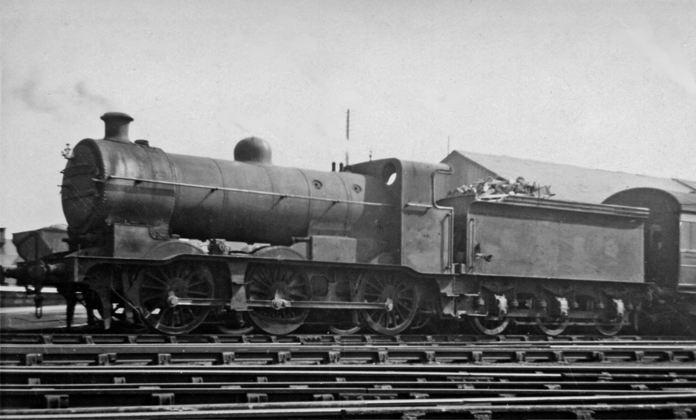 An ex-GN 0-6-0 at Grantham. Ex-Great Northern J6 0-6-0 No. 4199 may be working a local train to Nottingham (Victoria).